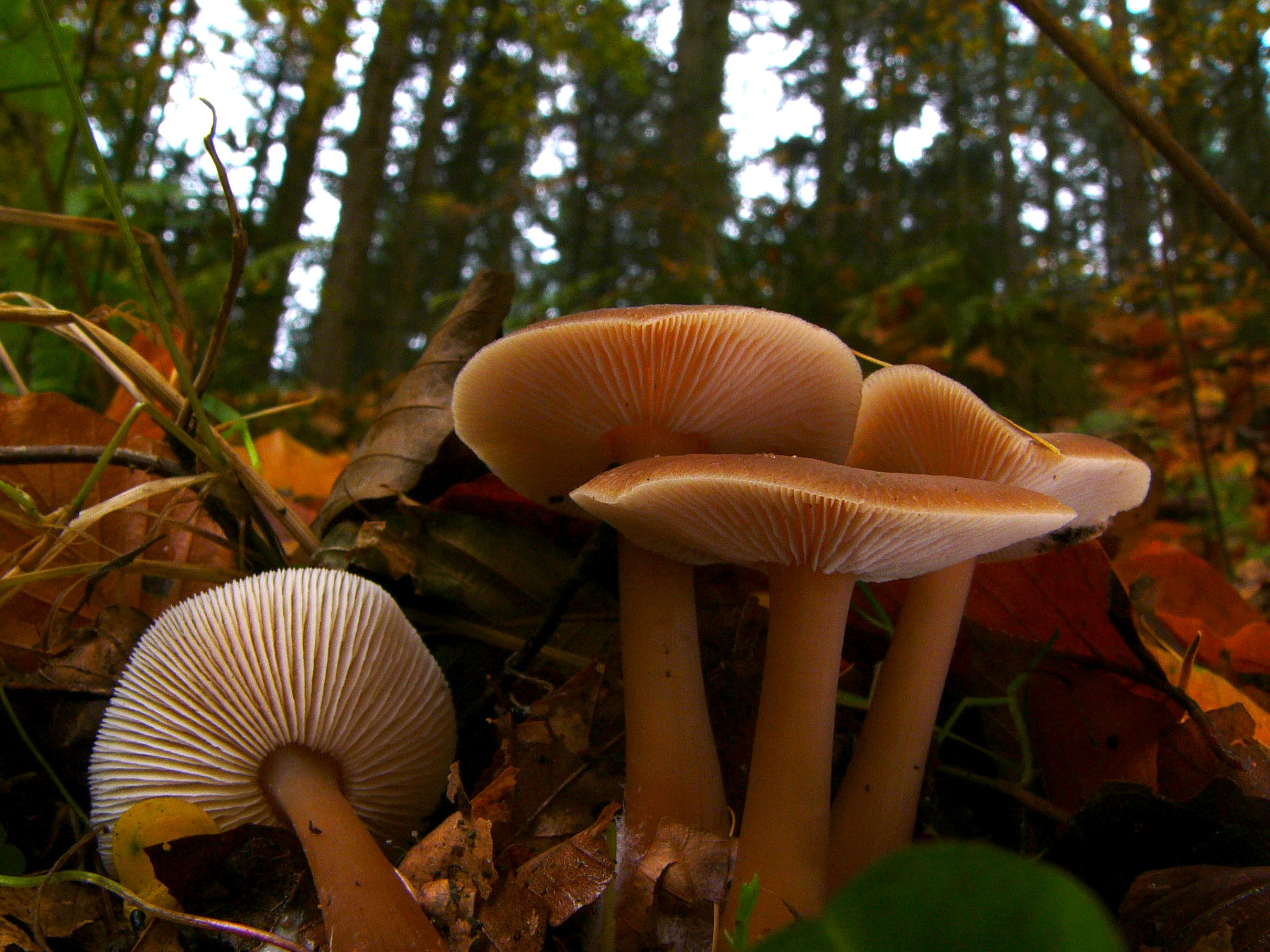 The making of this document was supported by the Community-Budget of Wikimedia Germany.